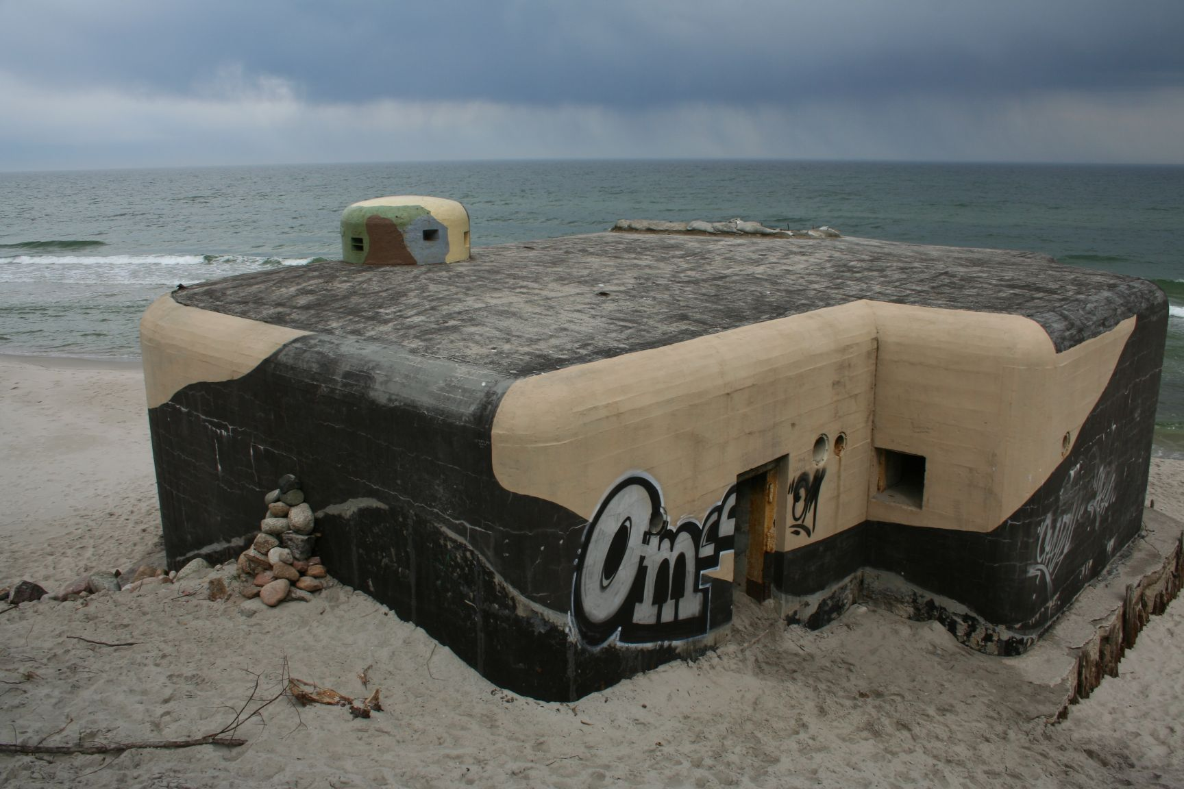 Schron Sep, Jastarnia [1]